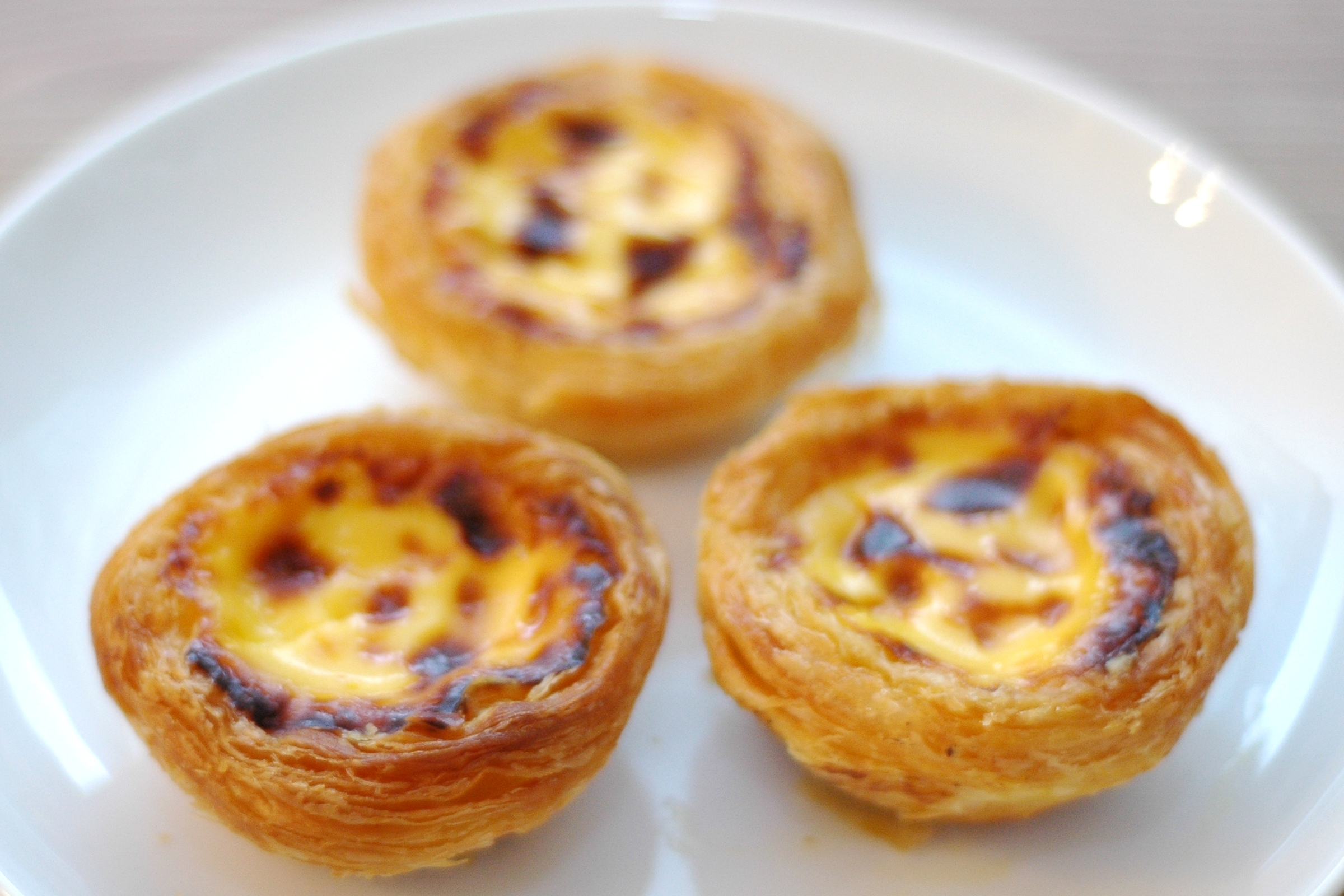 Pastéis de nata (egg tarts) from Margaret's Cafe e Nata, Macau.